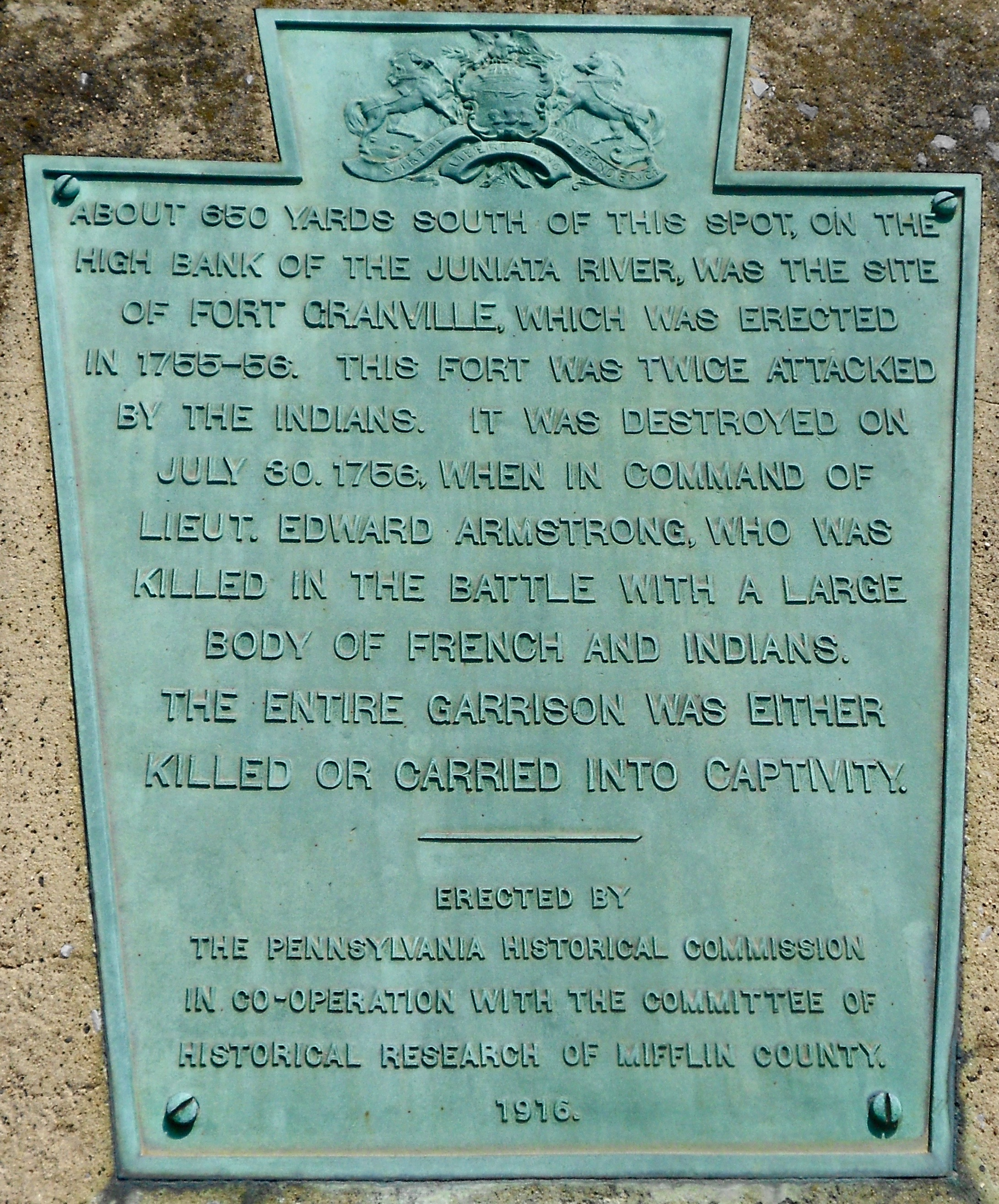 1916 Pennsylvania Historical Commission marker for Fort Granville, near Lewistown, Pennsylvania